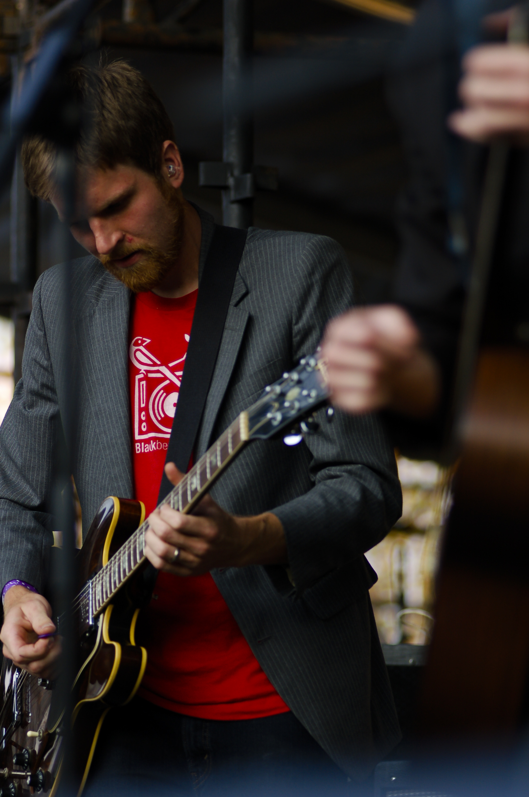 Okkervil River at Fun Fun Fun fest in 2007 - Brian Cassidy pictured